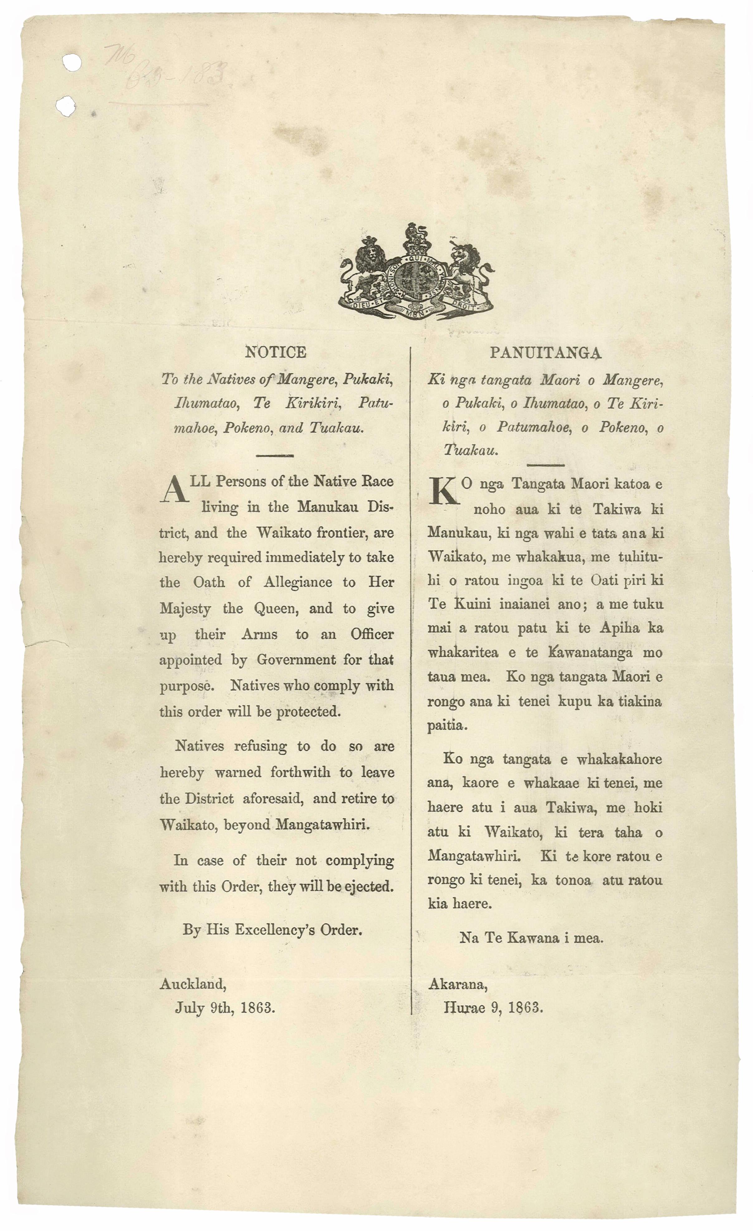 On 9 July 1863, Governor George Grey issued a proclamation requiring Māori living in the Manukau district and on the Waikato frontier to either to take an oath of allegiance to Queen Victoria and surrender their weapons to a Government officer, or to retire into the Waikato beyond the Mangatawhiri Stream. Government officials were instructed to proceed to Ihumatao, Mangere, Pukaki, Patumahoe, Tuakau and Pokeno to read and administer the oath and accept the surrender of arms. Copies were provided for distribution by Henry Halse, Major James Speedy, James Armitage, T.A. White and John Gorst. The proclamation was first published in newspapers on 11 July 1863. The invasion of Waikato began the next day: Archives Reference: MA1 Box 835/ 1863/186 For updates on our On This Day series and news from Archives New Zealand, follow us on Twitter: Material from Archives New Zealand Caption information from